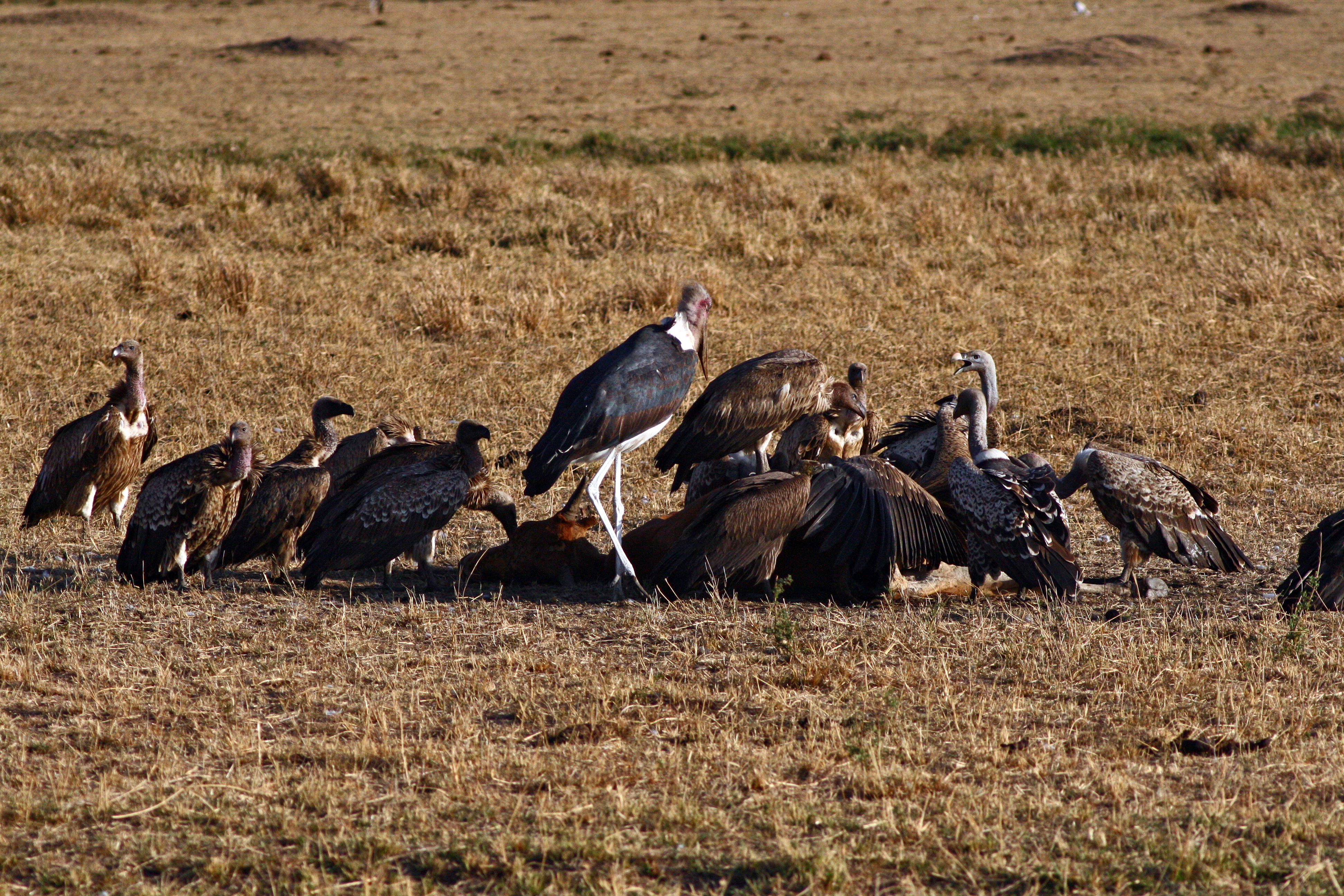 Marabou Stork and vultures scavenging in the Masai Mara, Kenya.